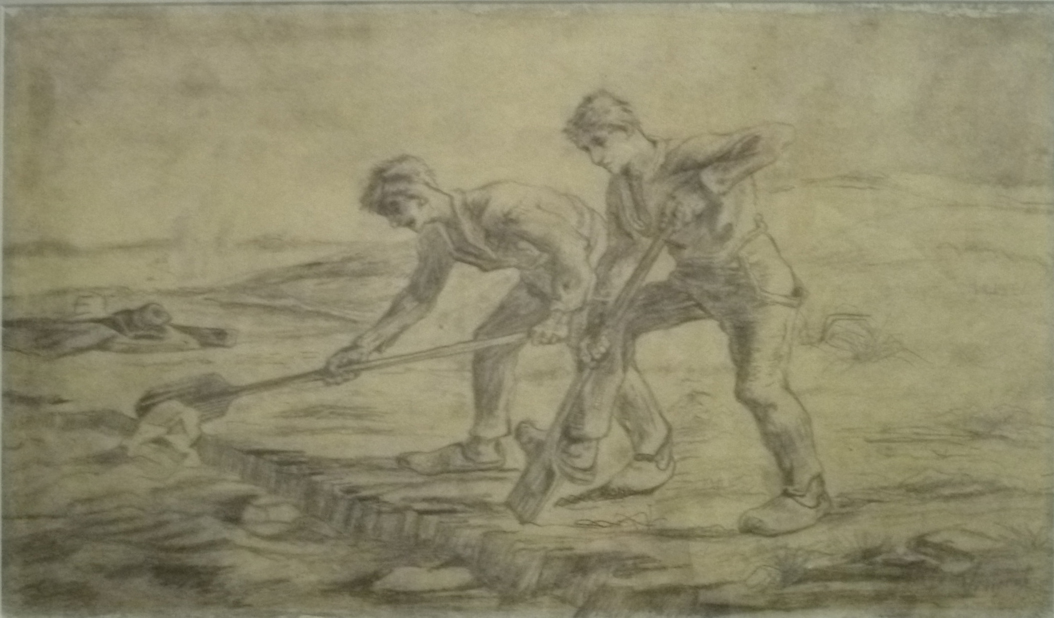 "The Diggers" (after Millet), black chalk on paper (1880) by Vincent van Gogh; collection of the city of Mons, Belgium